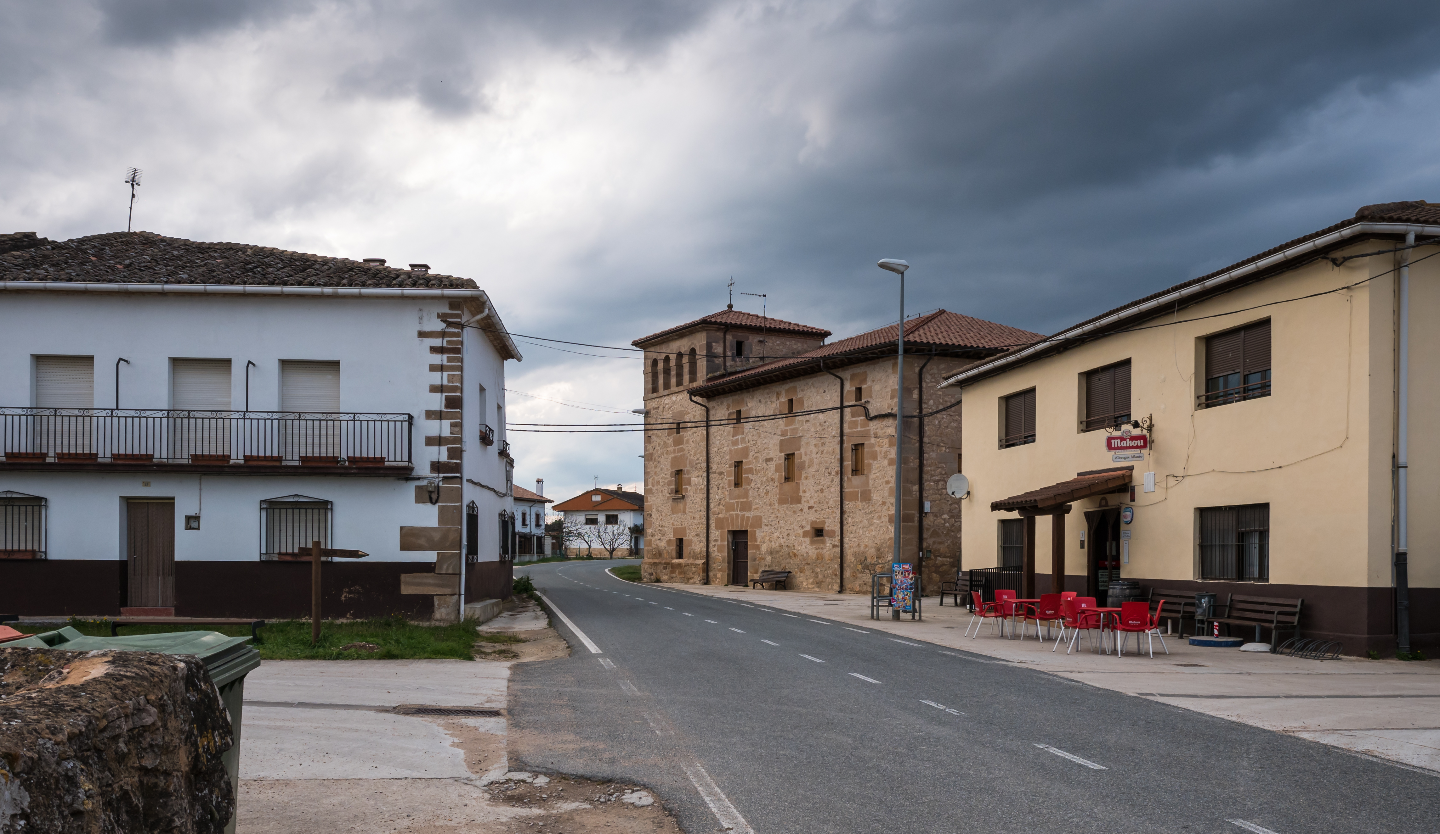 Legaria, main street and church. Navarre, Spain